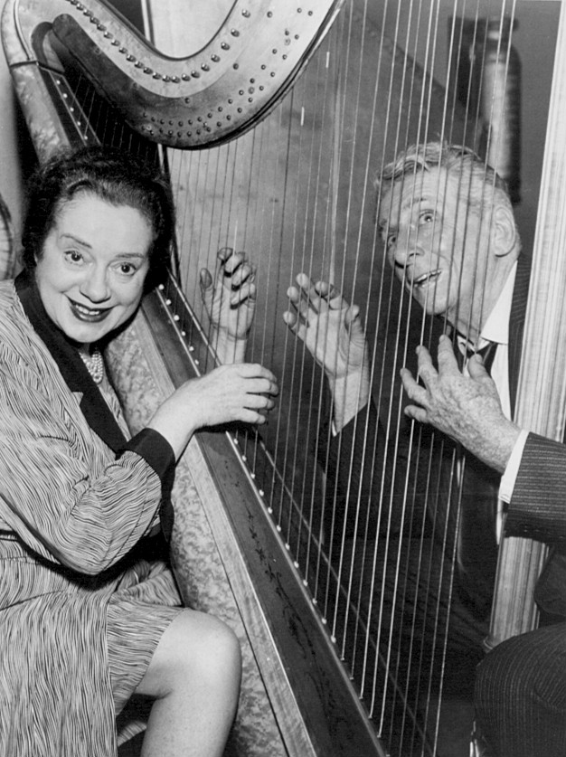 Photo of guest stars Elsa Lanchester and Edward Everett Horton from the television series Burke's Law. The item has no copyright markings on it as can be seen in the links above.